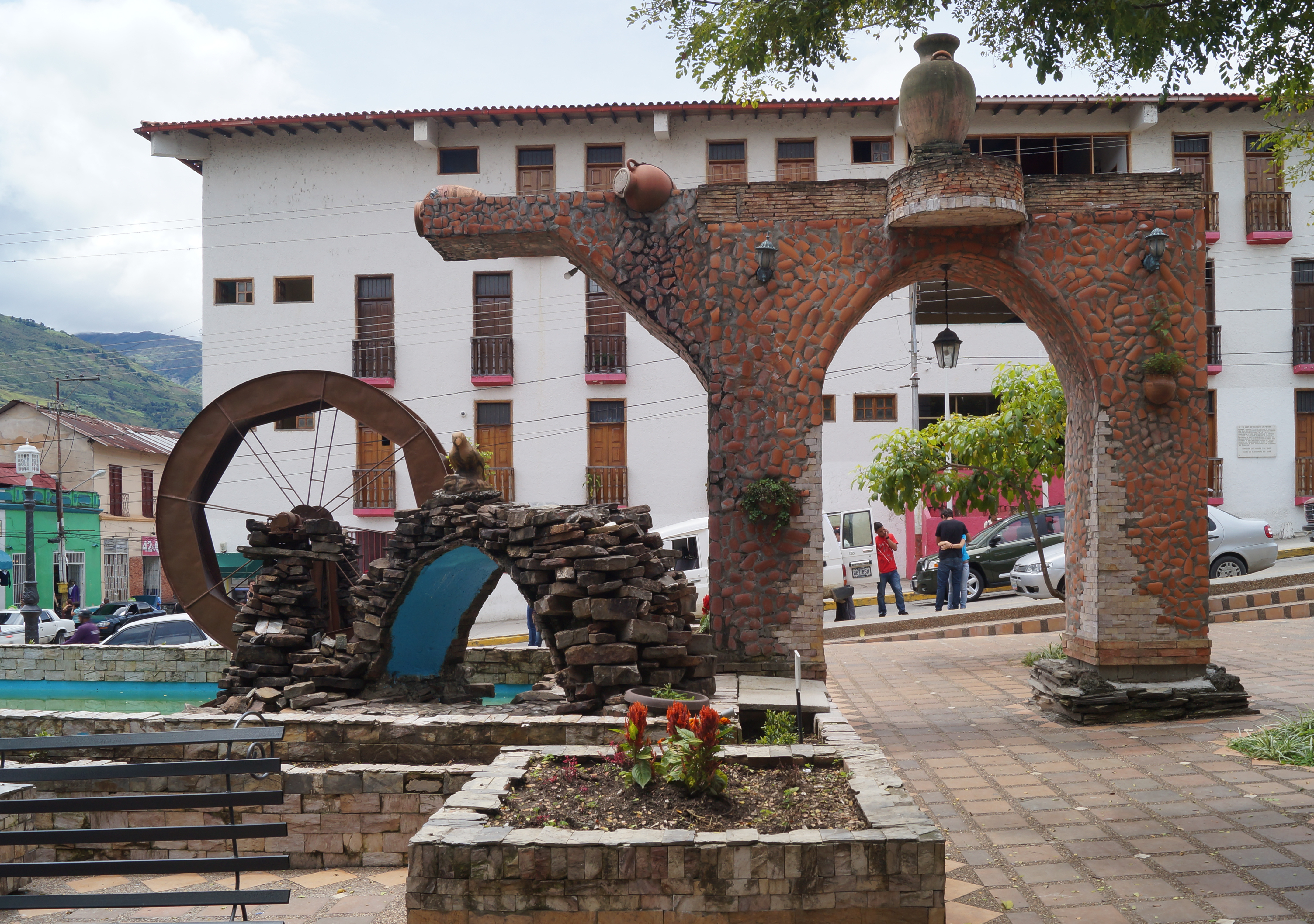 Watermill. Boconó. Trujillo